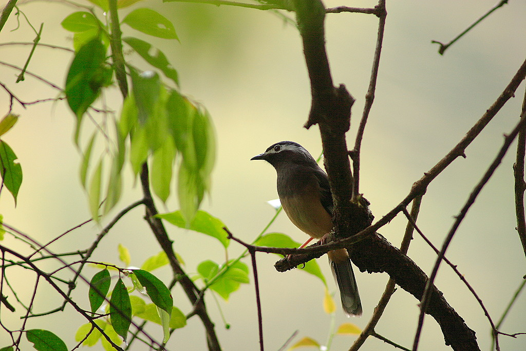 White-eared Sibia (Heterophasia auricularis)